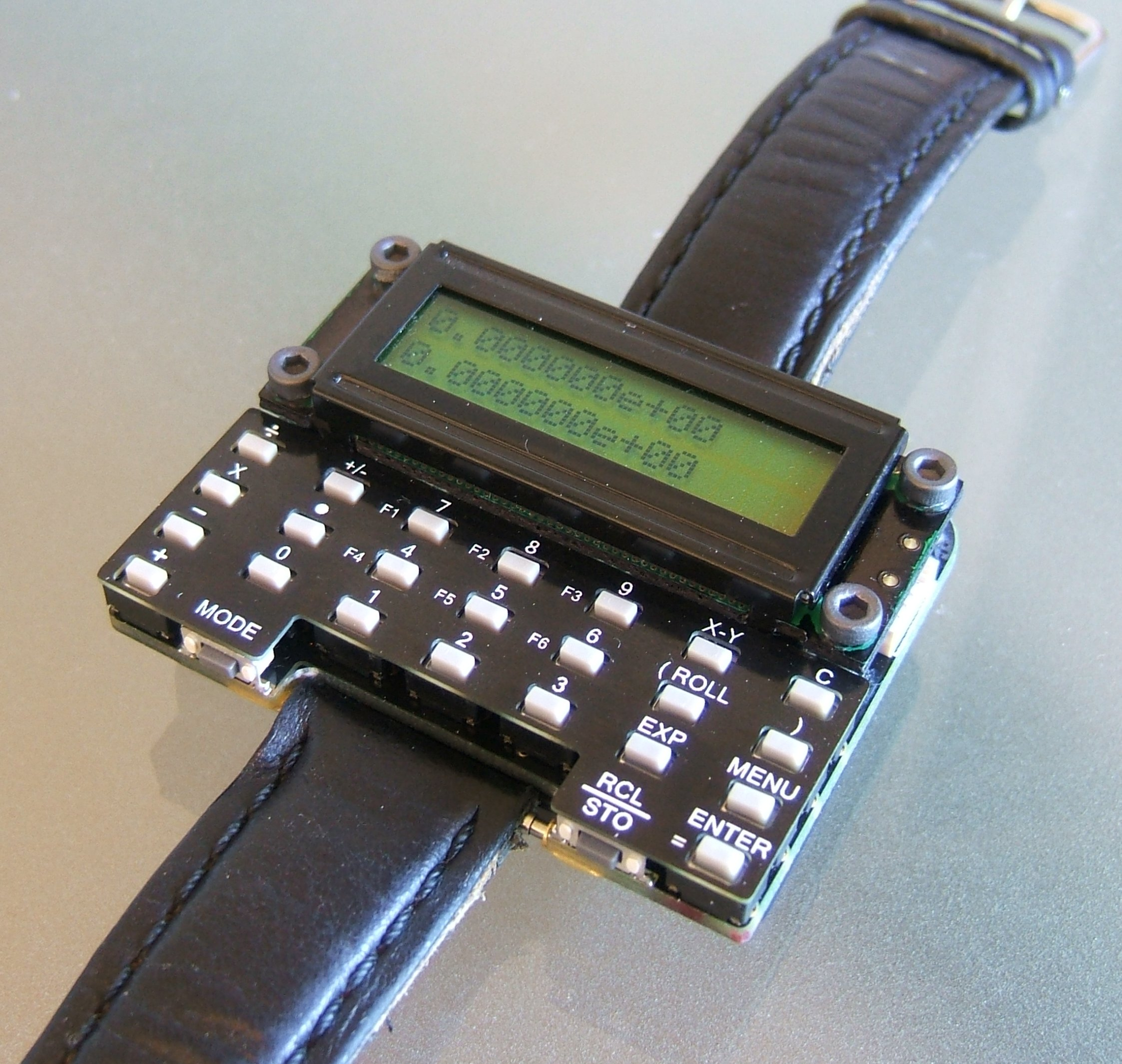 The µWatch, the world's first DIY scientific calculator watch.